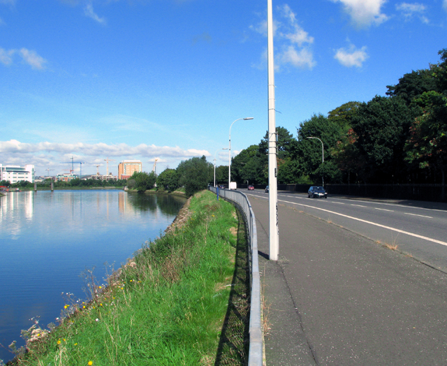 Ormeau Embankment, Belfast Road running alongside part of the River Lagan in Belfast.